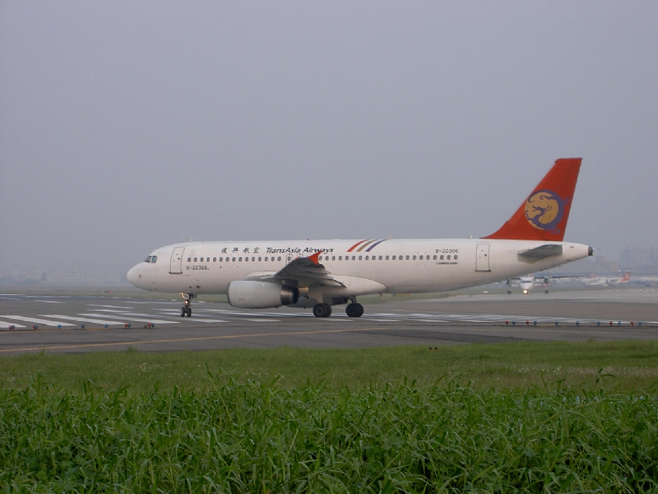 TransAsia Airways AIRBUS A320 IN RCSS.中文（台灣）: 復興航空公司 空中巴士 A320。